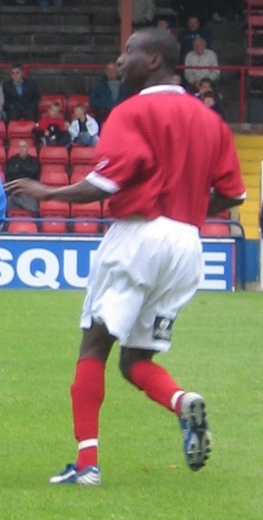 Photo of football player, taken by myself.